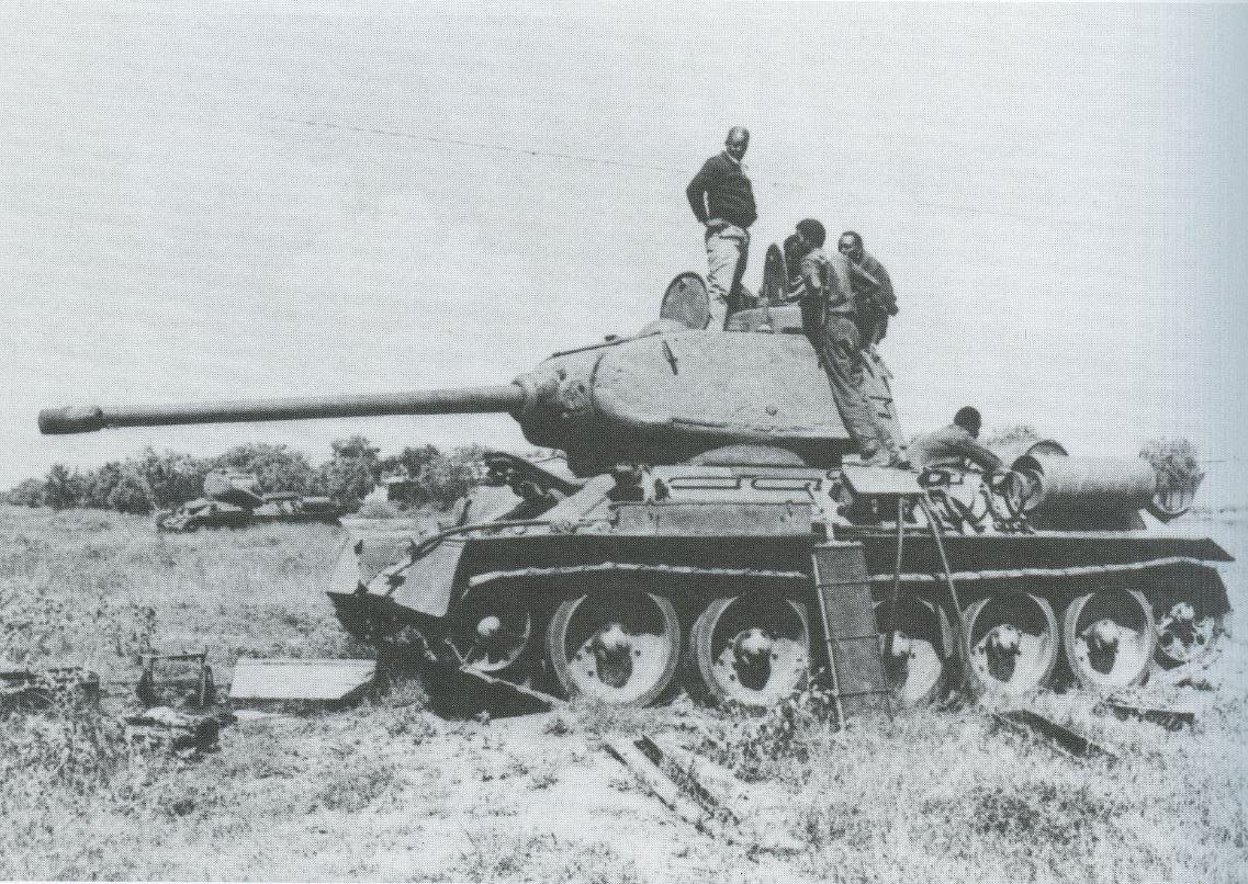 A picture from the African Bush Wars twitter account